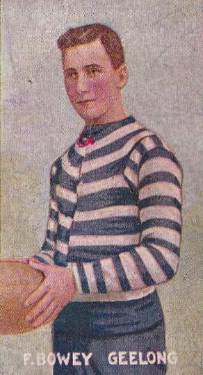 Cigarette card of Frank Bowey from the Sniders & Abrahams 1906 series